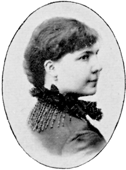 Image scanned from the book "Svenskt Porträttgalleri XX - Arkitekter, Bildhuggare, Målare m.fl. " ("Swedish Portrait Gallery XX - Architects, Sculptors, Painters, ") published 1901